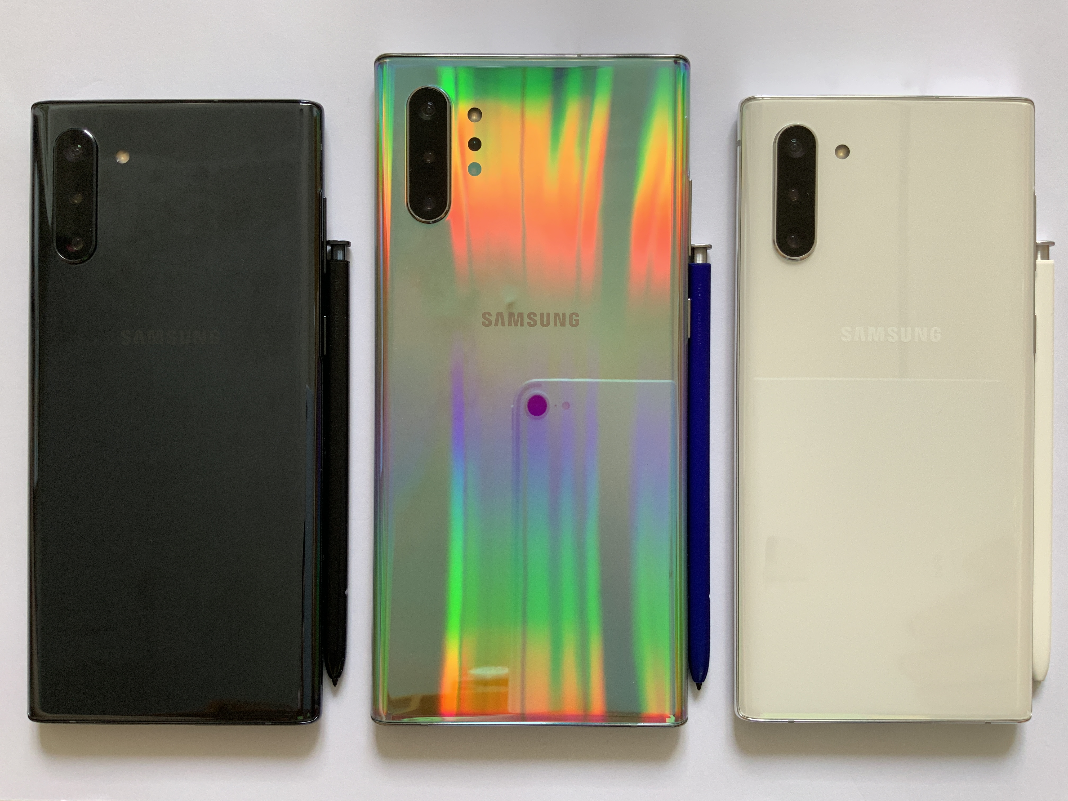 SAMSUNG Galaxy Note10 SAMSUNG Galaxy Note10 5G SAMSUNG Galaxy Note10+ SAMSUNG Galaxy Note10+ 5G